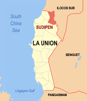 Map of La Union showing the location of Sudipen